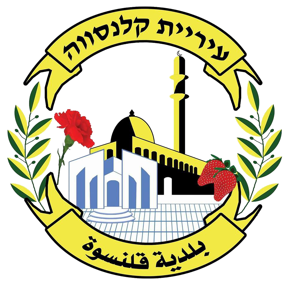 Coat of arms of Qalansawe